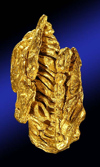 Gold Locality: Majuba placer, Antelope District, Pershing County, Nevada, USA (Locality at ) Size: miniature, 3.8 x 1.8 x 1.8 Gold (Large spinel-twinned crystal) An impressive spinel-twinned gold crystal of very large size, for any locality. All the more impressive then, from the Majuba Placers where generally only small crystals are found. This is a piece that must rank among the best to come out of the deposits, and is considered by Nevada collectors I know to be one of the best golds from the state. It is sharp, bright, complexly crystallized, a floater, and complete-all-around. It has superb patina with no sign of rounding or weathering. This was in the collection of Scott Kleine, a well-known Nevada collector and author. It has been featured in the recent opus on Nevada minerals, Minerals of Nevada; and also in the Rocks & Minerals GOLD issue and on the Las Vegas mineral shows promotions. Photo by Jeffrey Scovil. Offered for sale at US$43,000 circa 2010, SOLD. [1]